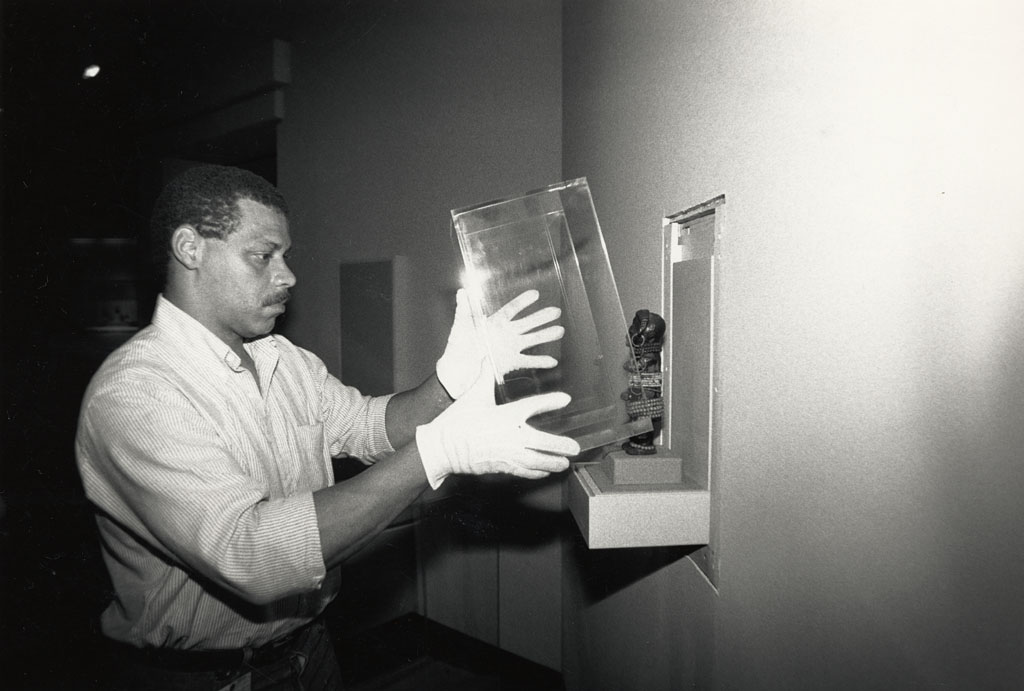 Exhibits Specialist Steve Smith placing a plexiglass case over an artifact in the National Museum of African Art. 1987.